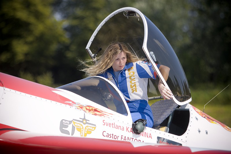 Svetlana Kapanina in a Sukhoi Su-26M (LY-AKG, cn 06-03) owned by Jurgis Kayris during the Otopeni Airshow 2011.